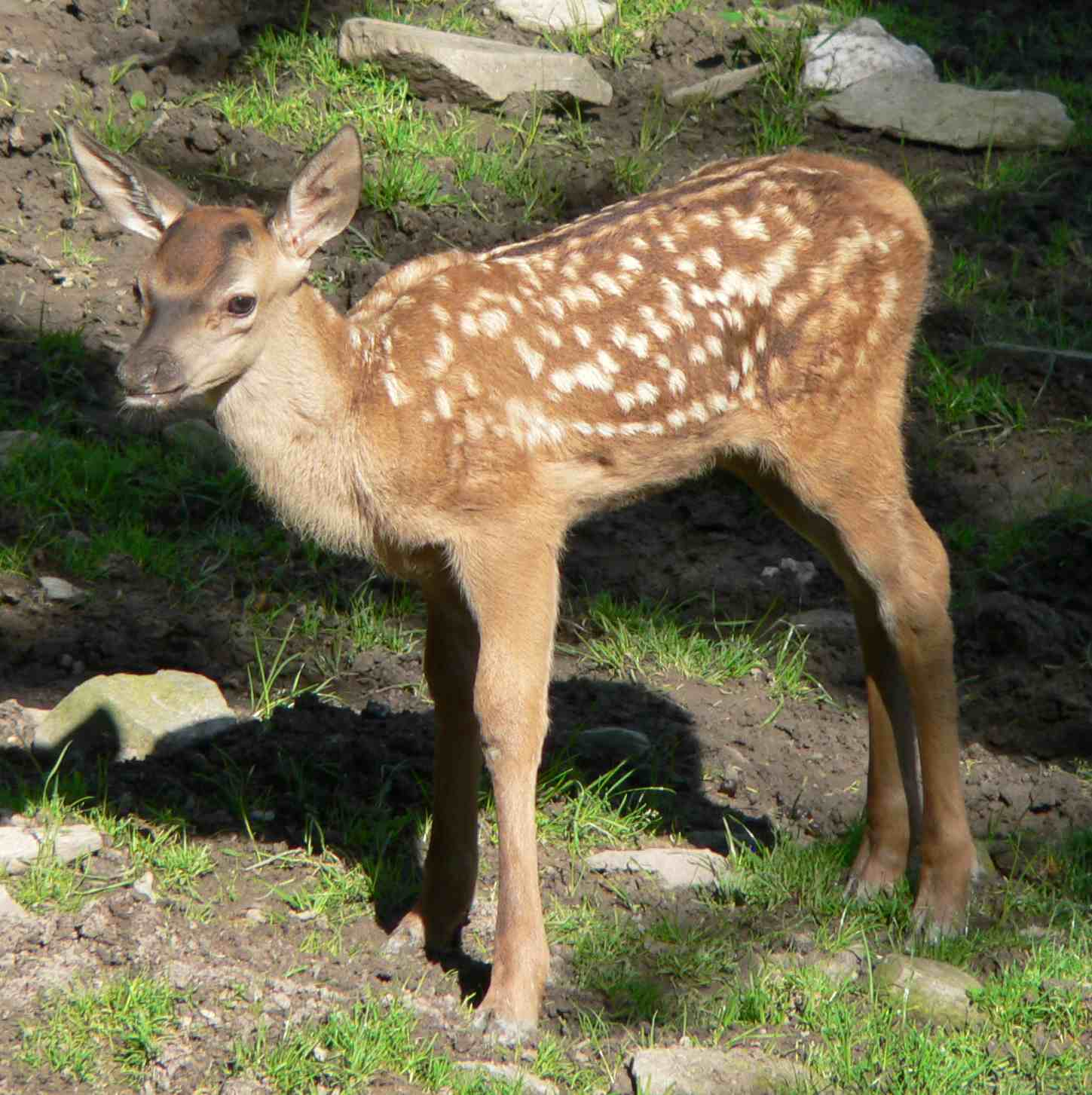 Cervus elaphus, fawn